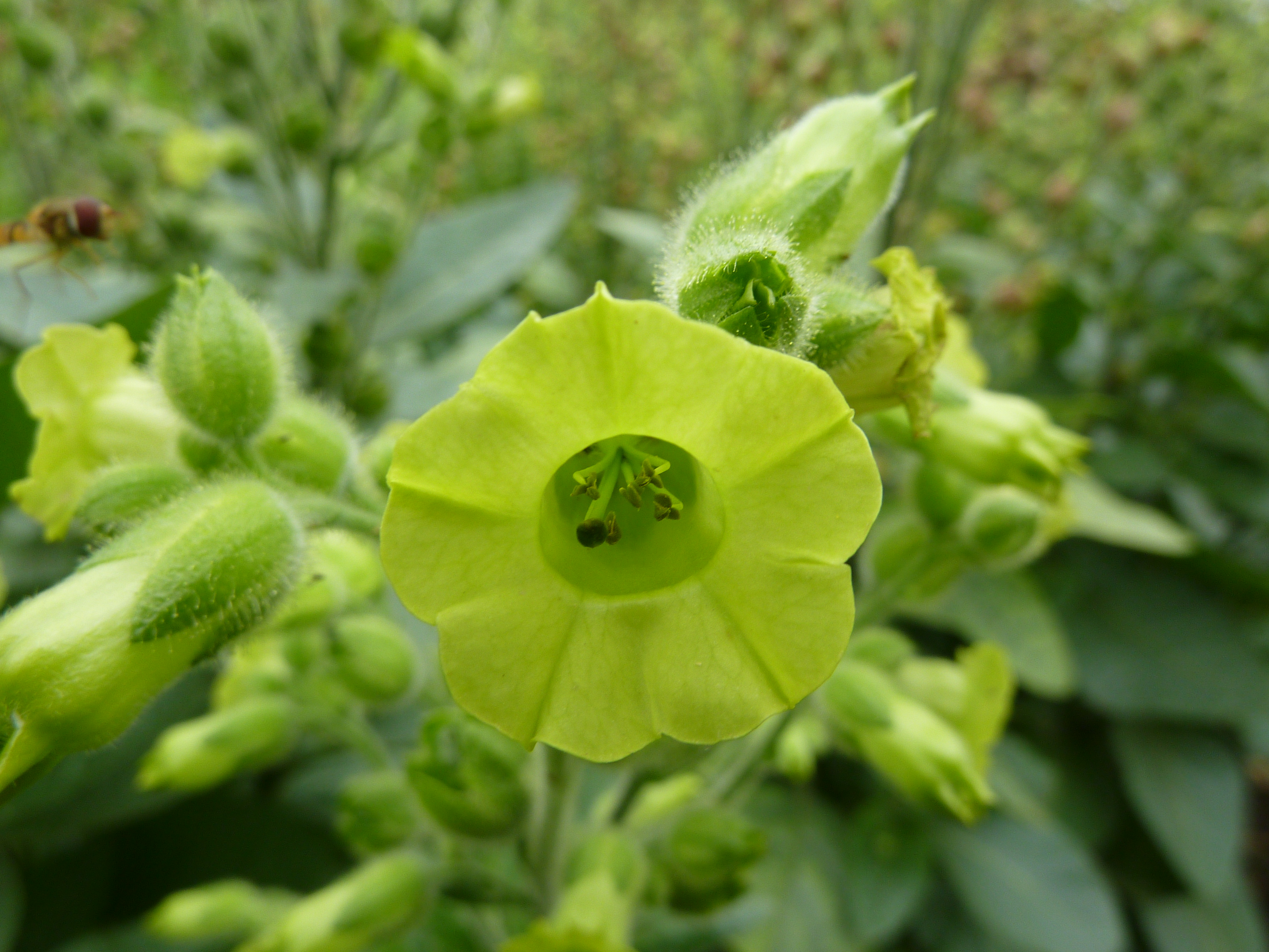 Nicotiana rustica, Cambridge University Botanic Garden